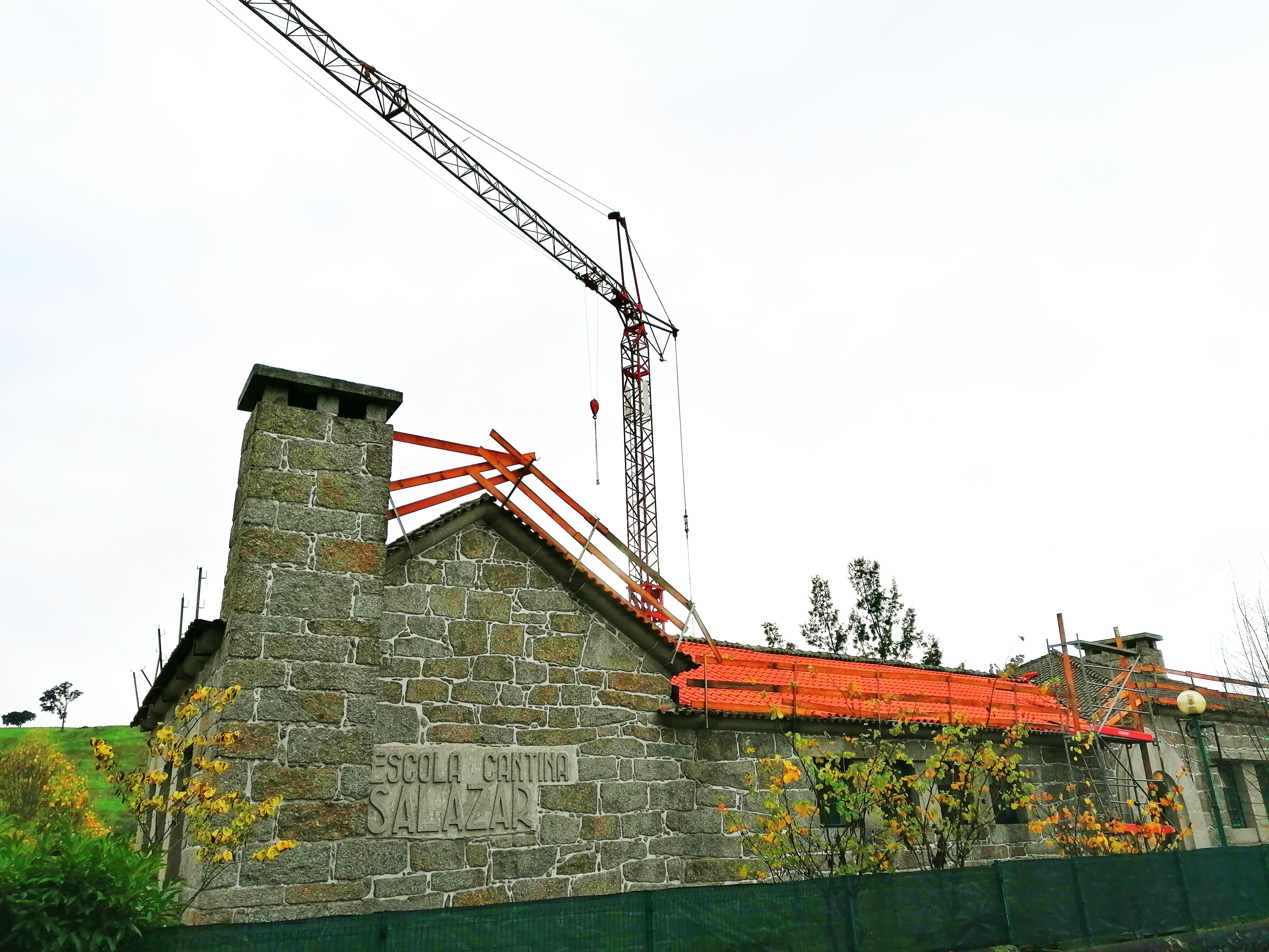 Rebuilding of old school to serve as study centre on Portugal's dictatorship (Estado Novo). Some call the building the future Salazar museum.